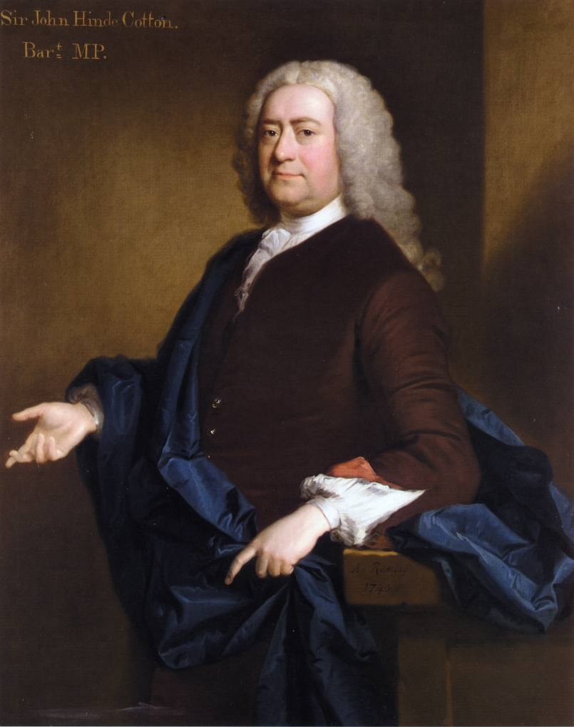 Portrait of Sir John Hynde Cotton, 3rd Bt; a prominent English Jacobite and Member of Parliament.